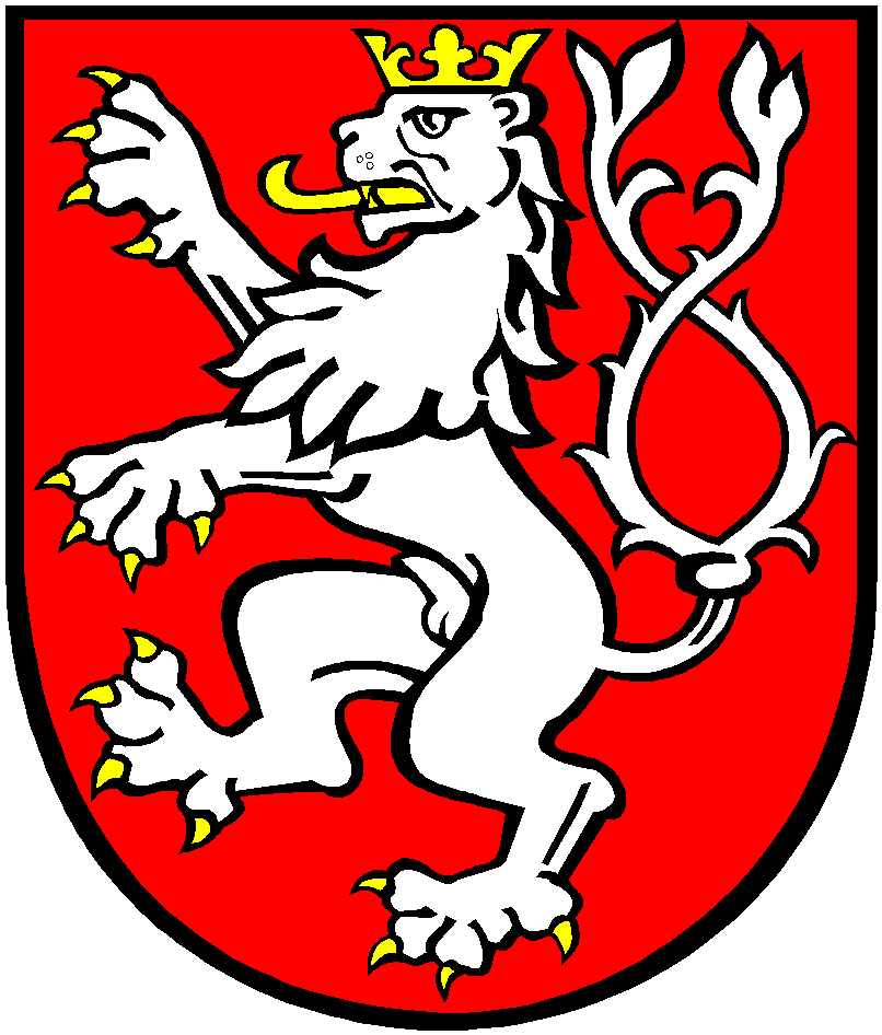 Coat of arms of municipality Nový Bydžov, Hradec Králové District, Czechia.